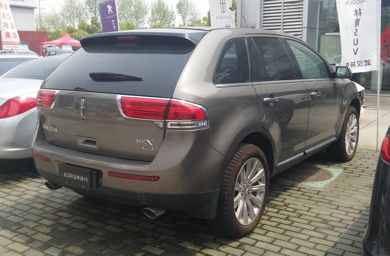 Lincoln MKX facelift photographed in Wuhan, Hubei province, China.